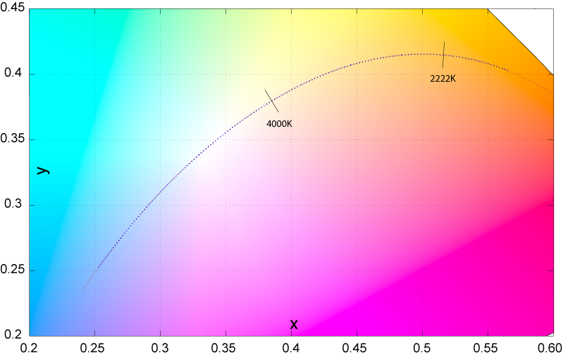 Cubic spline fitted to the Planckian locus